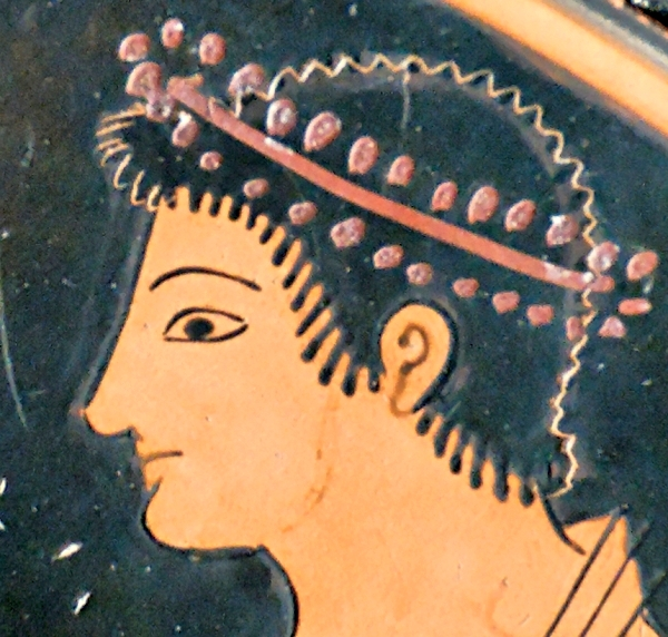 Male head, detail from a palaestra scene. Tondo from an Attic red-figure plate, ca. 520 BC–510 BC. From Vulci.